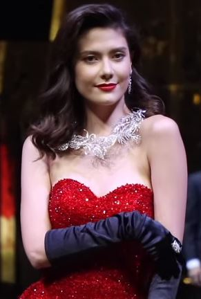 Miss Universe Thailand 2017, Maria Poonlertlarp at Bangkok Gems & Jewelry Fair 65th.